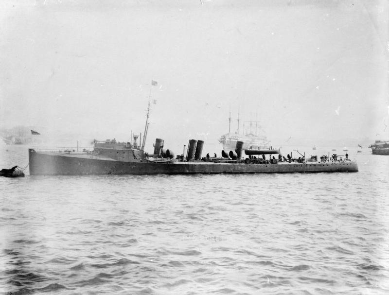 Photograph of British Palmer class destroyer HMS Bonetta, reclassified as B class in 1913.